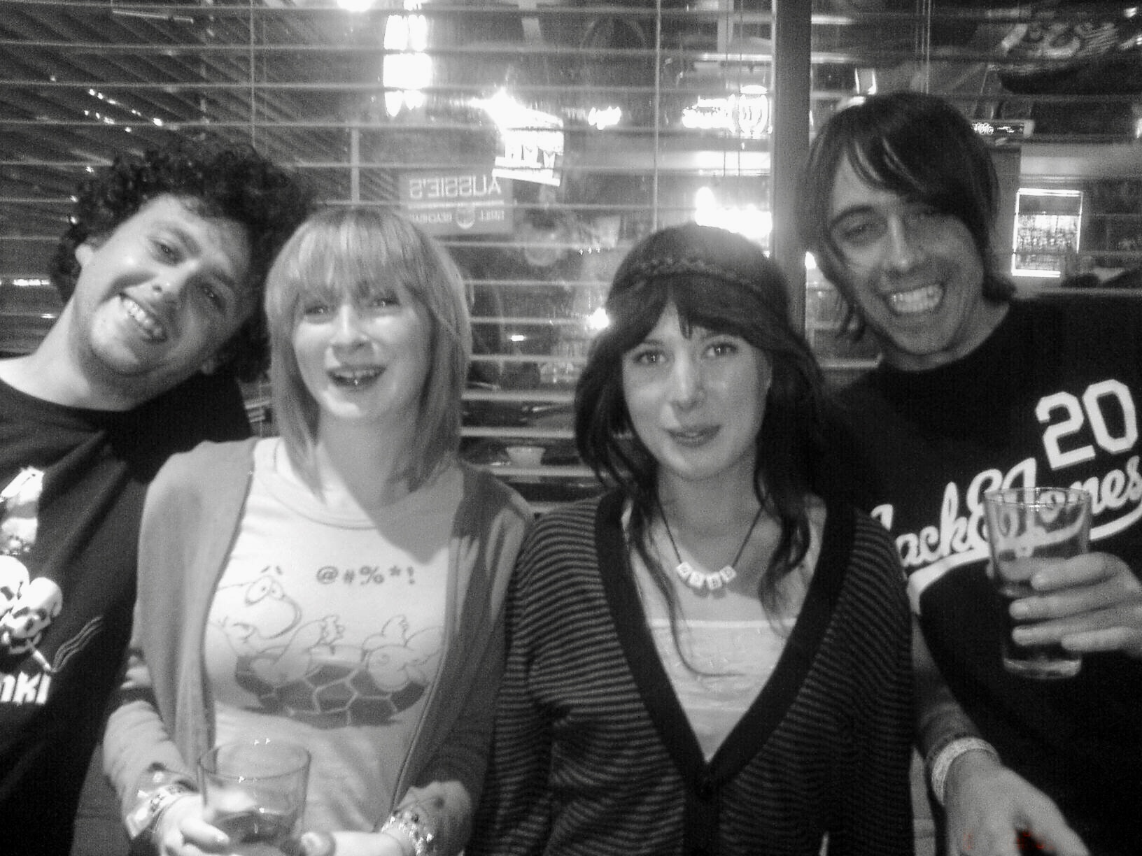 Taken in Austin, Texas on a rare night off.